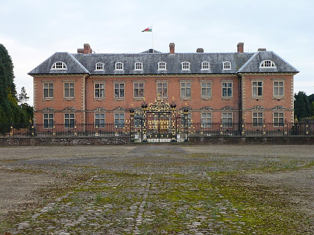 Tredegar House Tredegar House, one of the best examples of a 17th century Charles II mansion in Britain, is a Grade I listed building. This view across the stable court is towards the original entrance to the house. Around 1850 a new entrance was built on the side of the house and can be seen here .